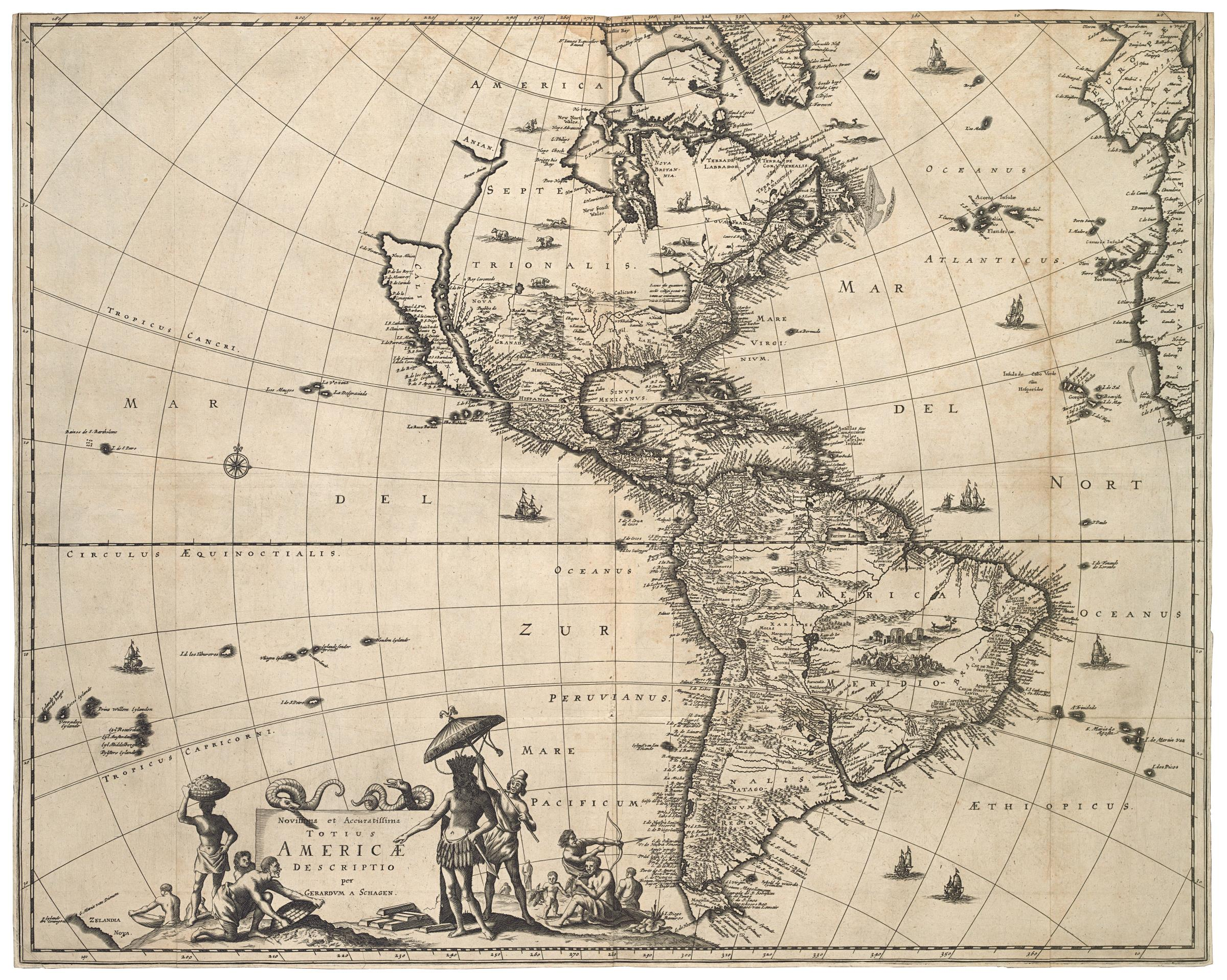 Map of North and South America. Novissima et Accuratissima Totius Americae. The chart features various small illustrations, such as a war being waged by Indians in South America and a figure lying in a hammock. New Zealand is partially depicted bottom left. Cf. Koninklijke Bibliotheek, The Hague, inv. nr. 1049B13_072 and Rijksmuseum Amsterdam, inv. nr. NG-501-89.